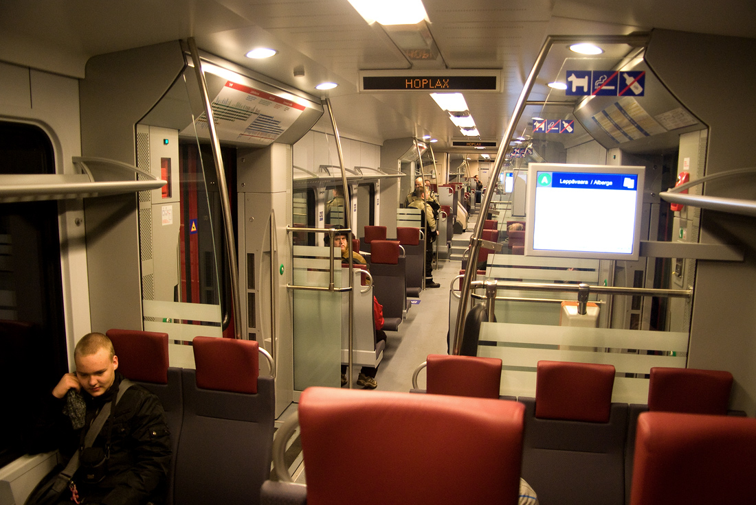 Interior of a VR Class Sm5 electric multiple unit